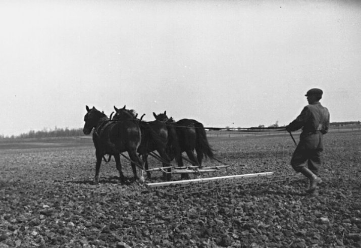 Harrowing on Eaton Farm, Toronto, Ontario, 1922. The farm was acquired by the Eaton's department store to supply produce and dairy products to its store. In the 1950s, the farm was sold and subdivided, and today is the Eatonville community of Etobicoke.